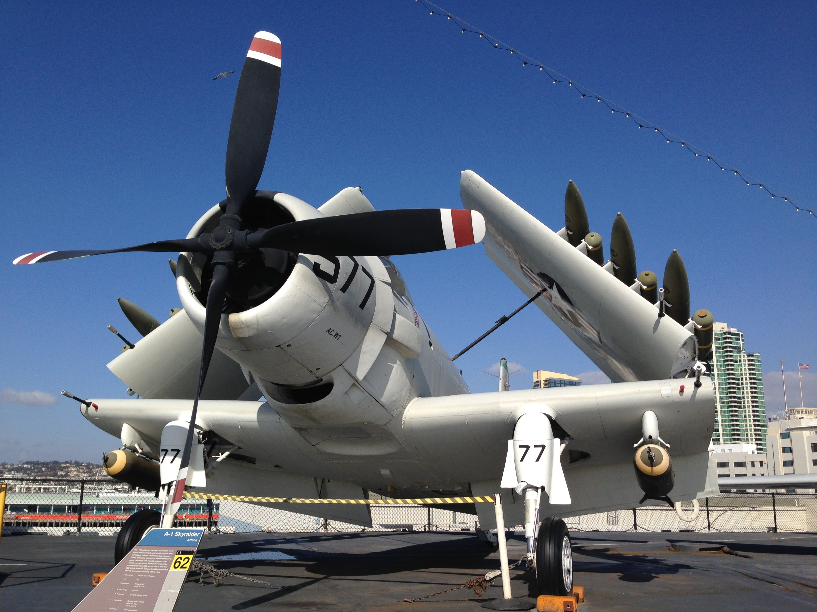 A-1 Skyraider in San Diego airport